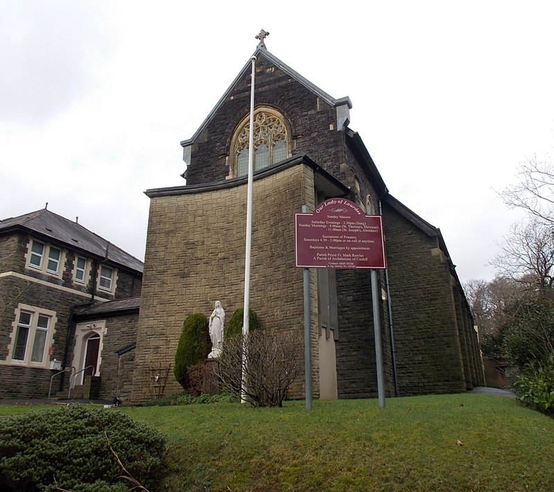 Our Lady of Lourdes, Mountain Ash. Roman Catholic church viewed from Miskin Road.